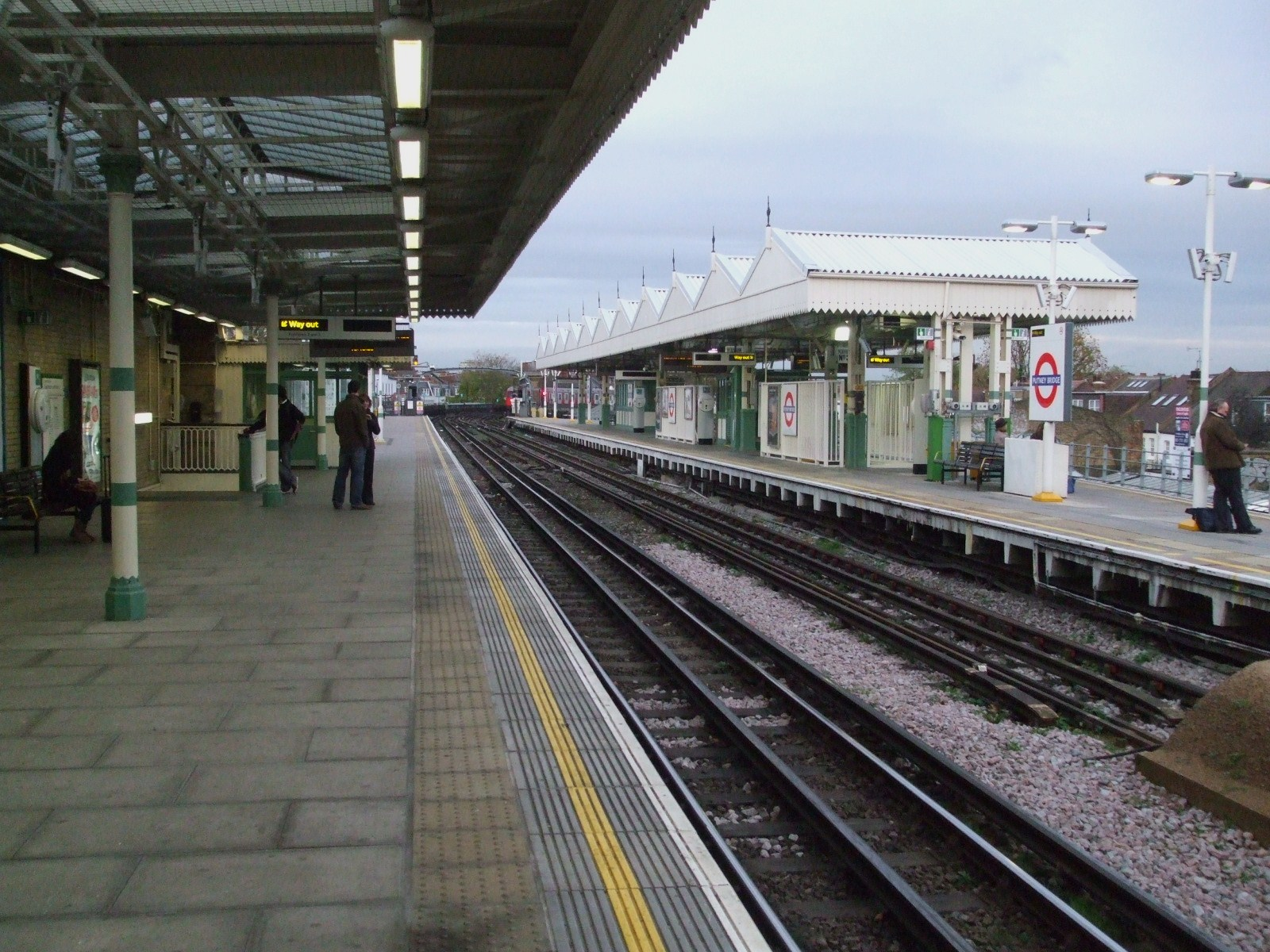 Putney Bridge tube station eastbound through platform looking eastbound (actually north here). Terminating platform visible on the right.